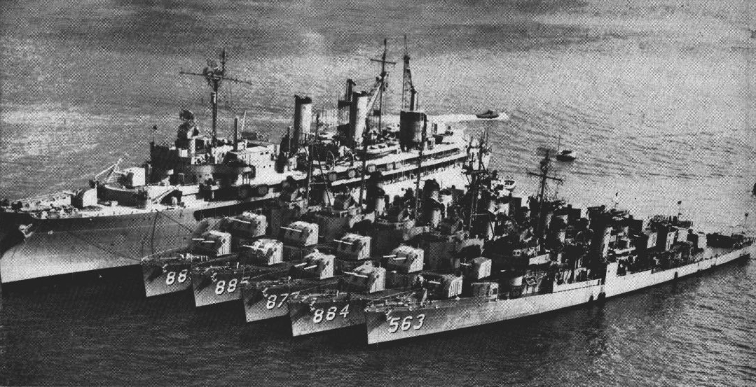 The U.S. Navy destroyer tender USS Prairie (AD-15) at anchor, tending five destroyers alongside. From inboard to outboard: USS O'Hare (DD-899), USS John R. Craig (DD-885), USS Perkins (DD-877), USS Floyd B. Parks (DD-884), and USS Ross (DD-563).